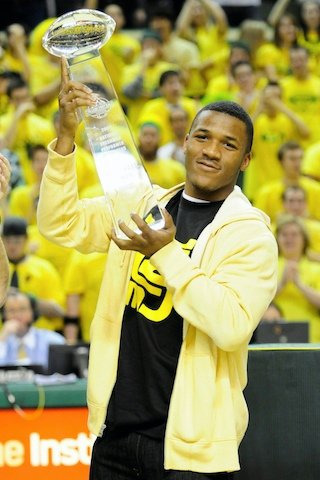 Oregon Ducks football running back LaMichael James accepts an award during the halftime of an Oregon Ducks men's basketball game at McArthur Court on the University of Oregon campus in Eugene.